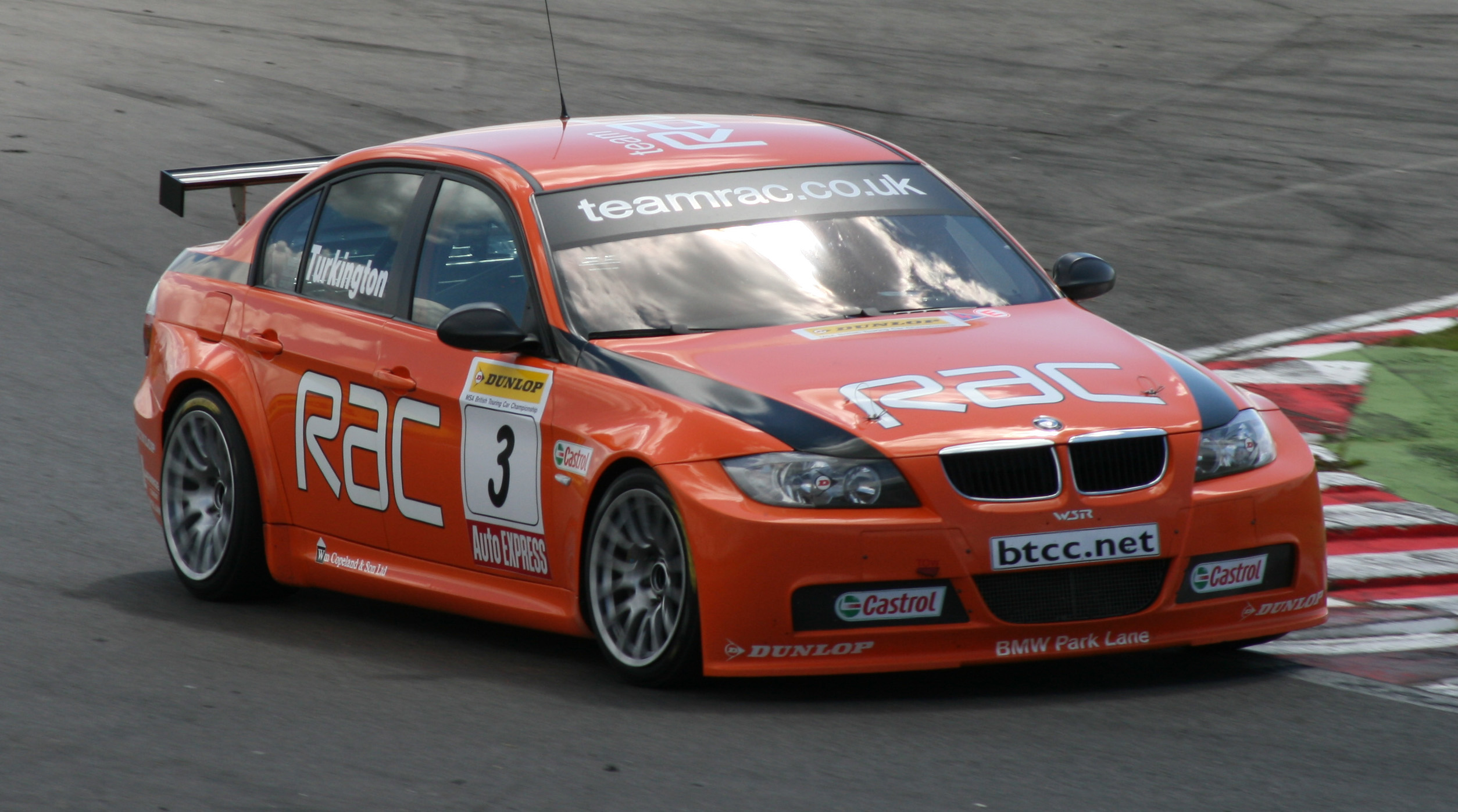 Colin Turkington driving a BMW at Snetterton during the 2007 BTCC season.